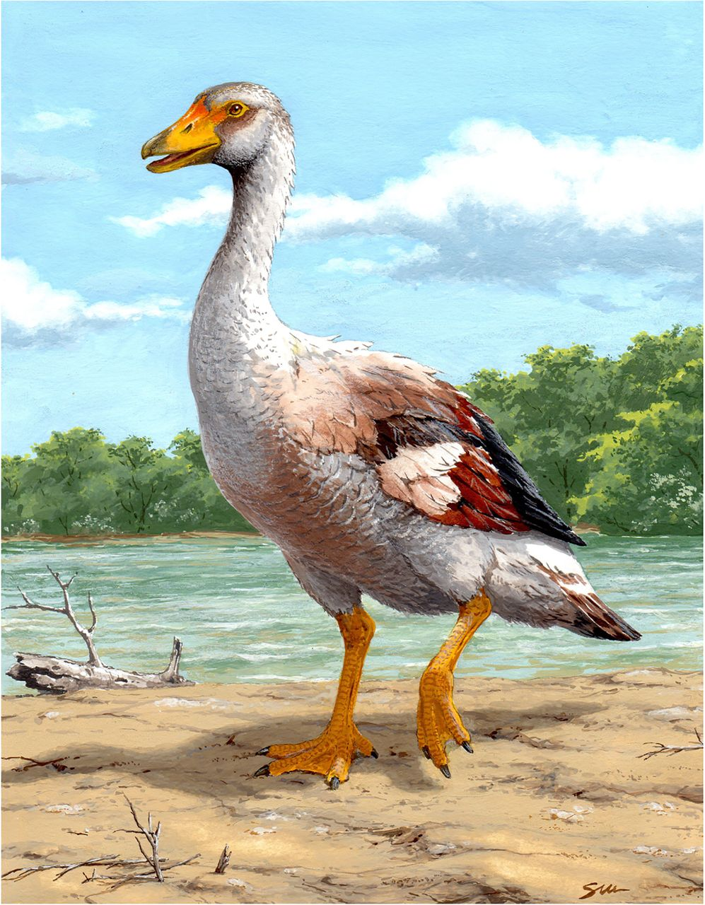 Reconstruction of Garganornis ballmanni Meijer, 2014 based on the newly described fossil remains. This reconstruction is based on a generic Western Palaearctic goose with short and robust tarsometatarsus, short toes and very short wings according to the known elements of Garganornis ballmanni.